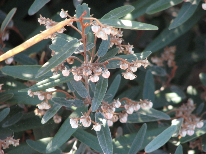 Lasiopetalum behrii (cultivated, labelled), Geelong Botanic Gardens, Geelong, Victoria, Australia